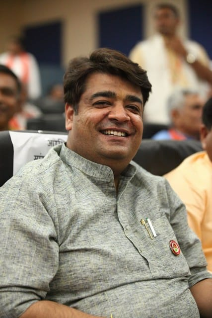 meeting picture of aseem goel